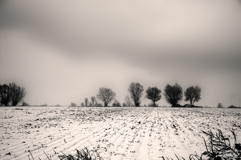 Fucino in the snow